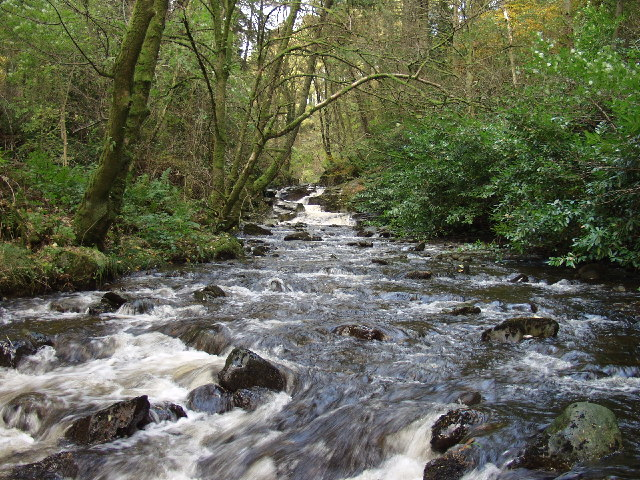 Wonderful piece of temperate rainforest. The Afon Cedig just before it goes under the road and into Llyn Efyrnwy. Great trees, both conifers and broadleaves, on either bank. Some trees there big enough for tall ships masts.